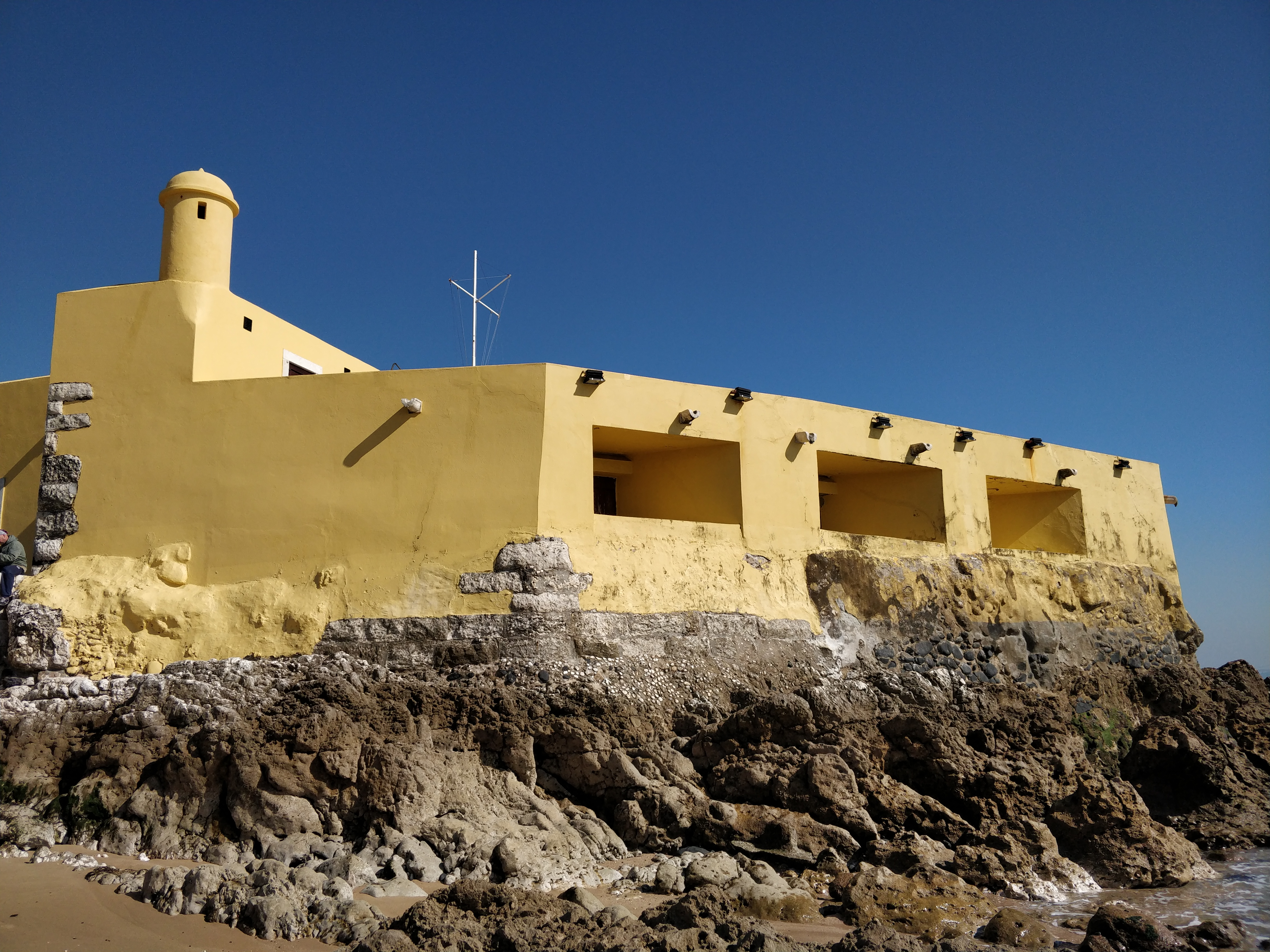 The Fort of Giribita, also known as the Fort of Our Lady of Porto Salvo and the Fort of Ponta do Guincho, on the estuary of the River Tagus, close to Lisbon